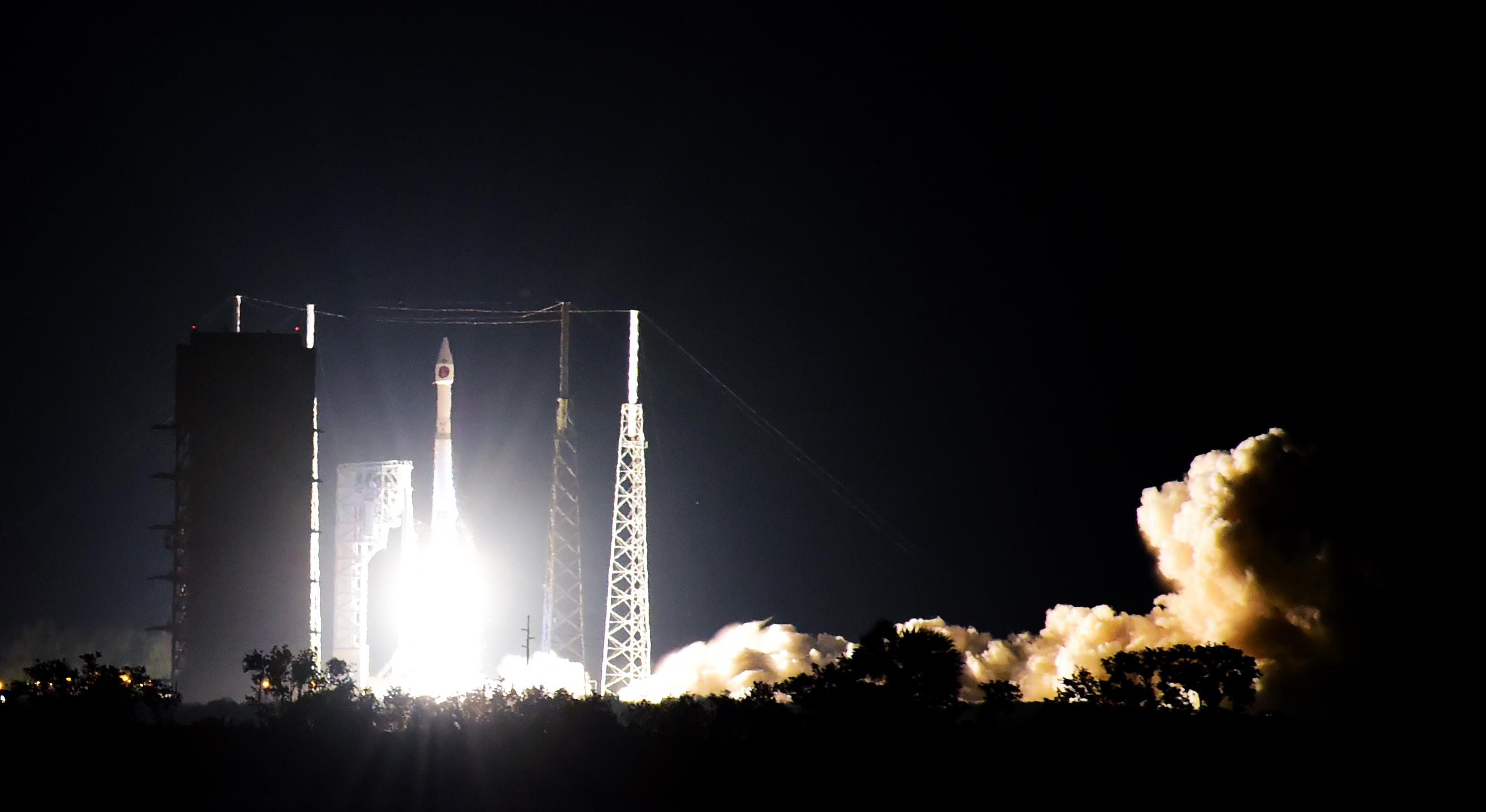 The United Launch Alliance Atlas V rocket carrying Space-Based Infrared System GEO 3 successfully takes off Jan. 20, 2017, from Cape Canaveral Air Force Station, Florida. SBIRS GEO 3 was built by Lockheed Martin for the U.S. military to use for their missile warning capabilities.